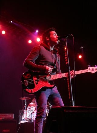 Peter Wentz of Fall Out Boy in concert.